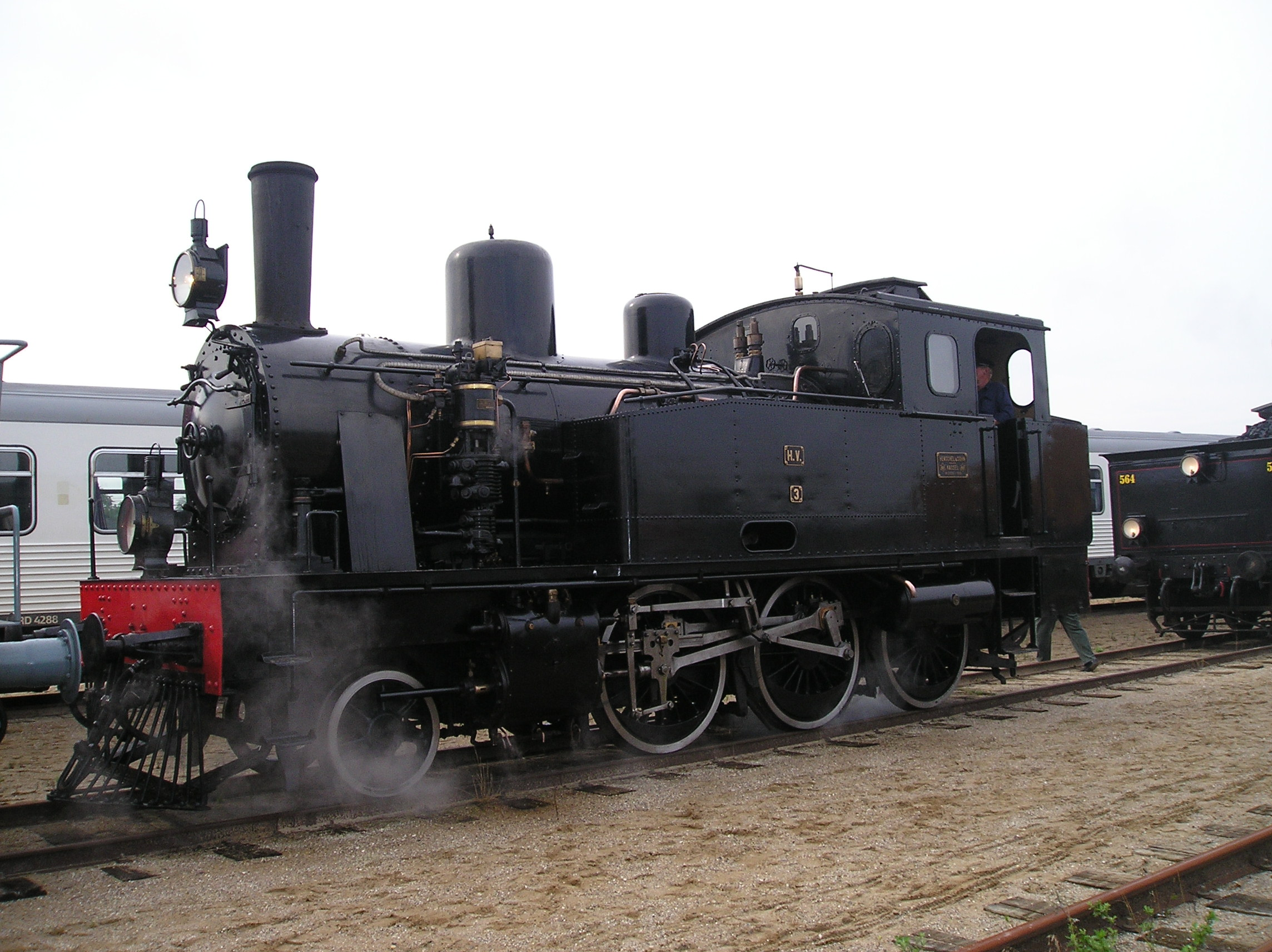 Danish steam locomotive HV 3 at Danmarks Jernbanemuseum in Odense. The locomotive belongs to Mariager-Handest Veteranjernbane.